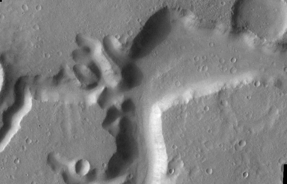 Nanedi Valles close-up, as seen by themis. Location is 5.8 N and 311 E. Image is 18.6 km wide.